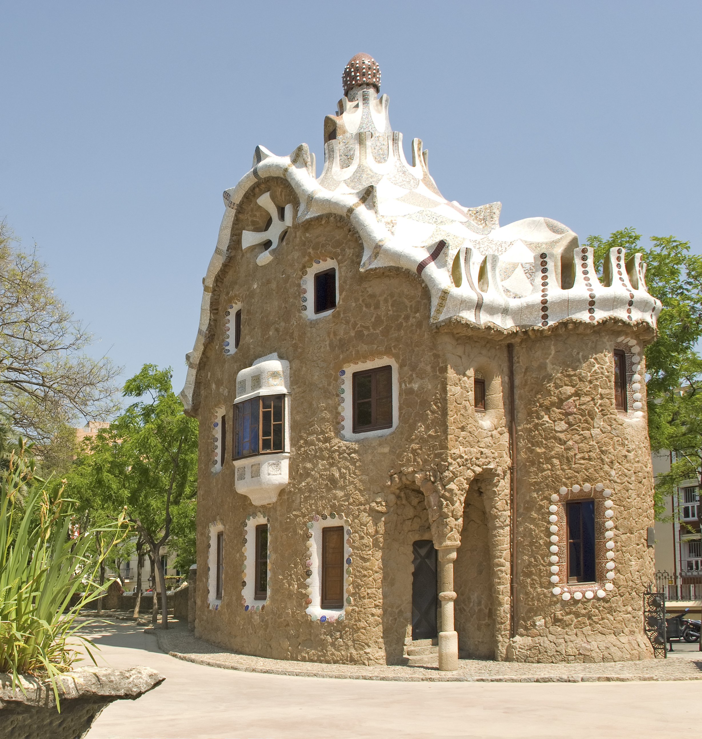 Pavilion at the Park Güell entrance